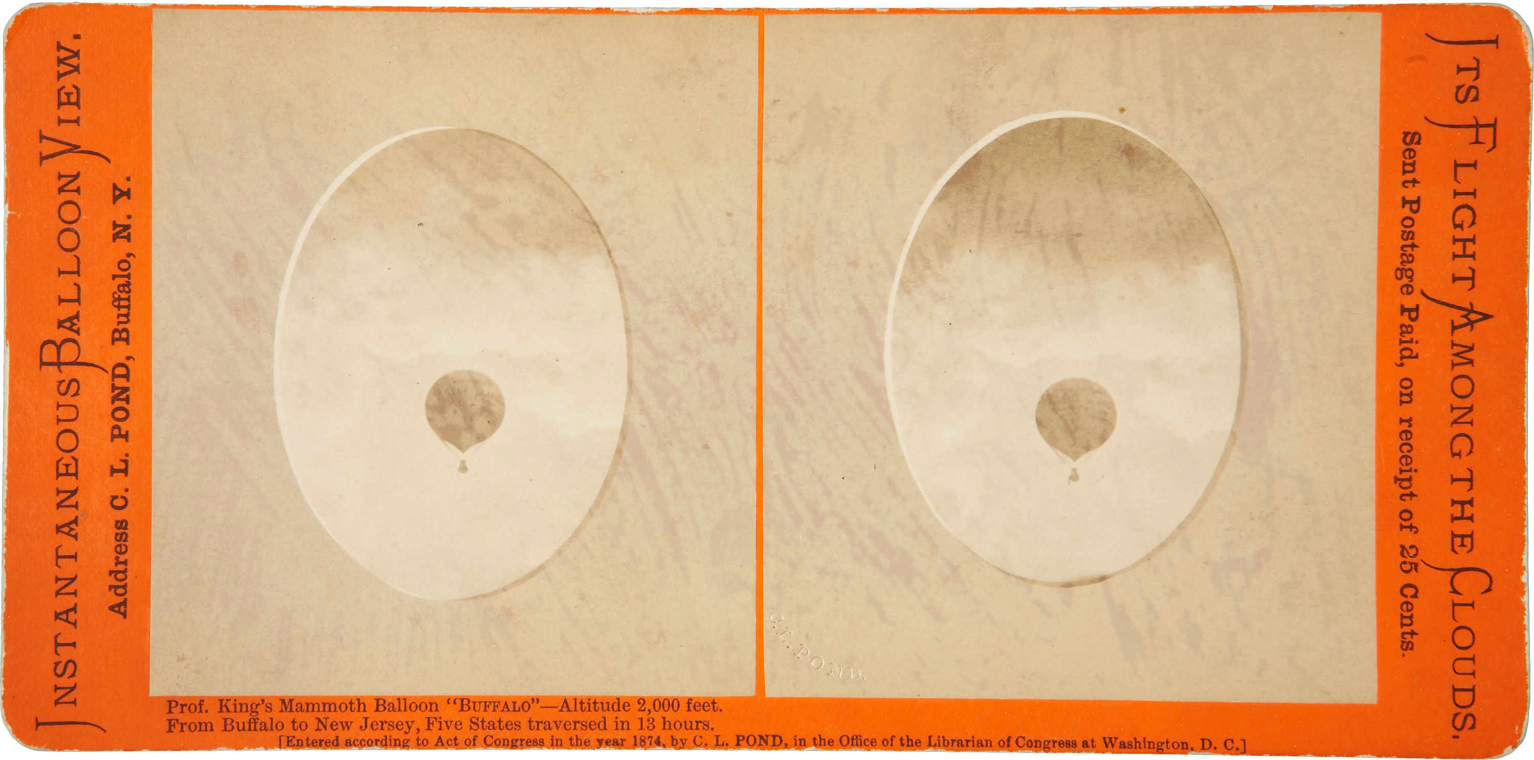 Stereoview: Professor Samuel Archer King's Balloon in Flight July 4, 1874